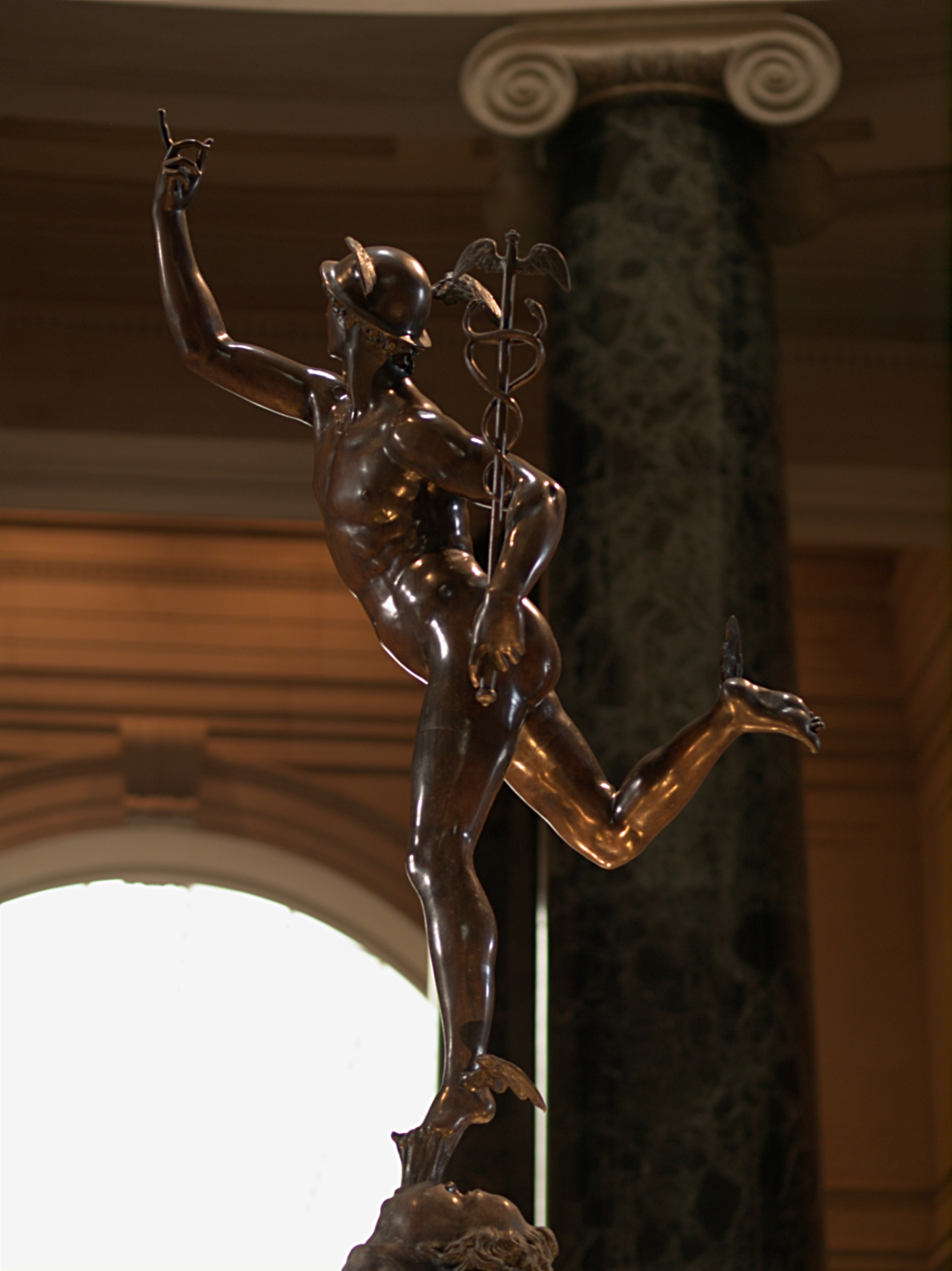 Mercury. bronze. I've always felt sorry for that putto he's standing on ... See also